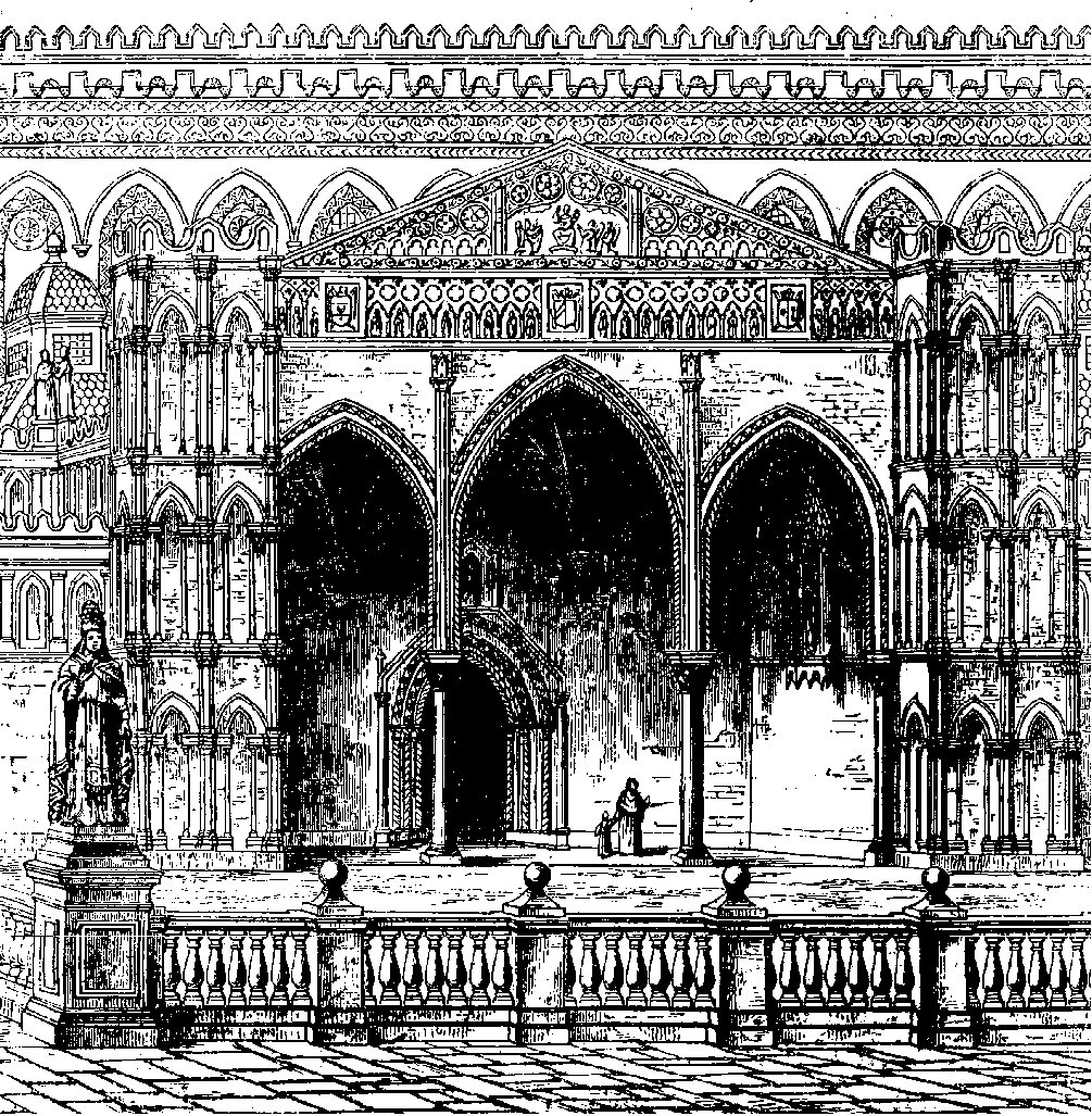 The Gothic-Catalan Porch of the Palermo Cathedral, Italy, in a drawing by the Scottish architect James Fergusson (Ayr, 1808 – Londra, 1886).